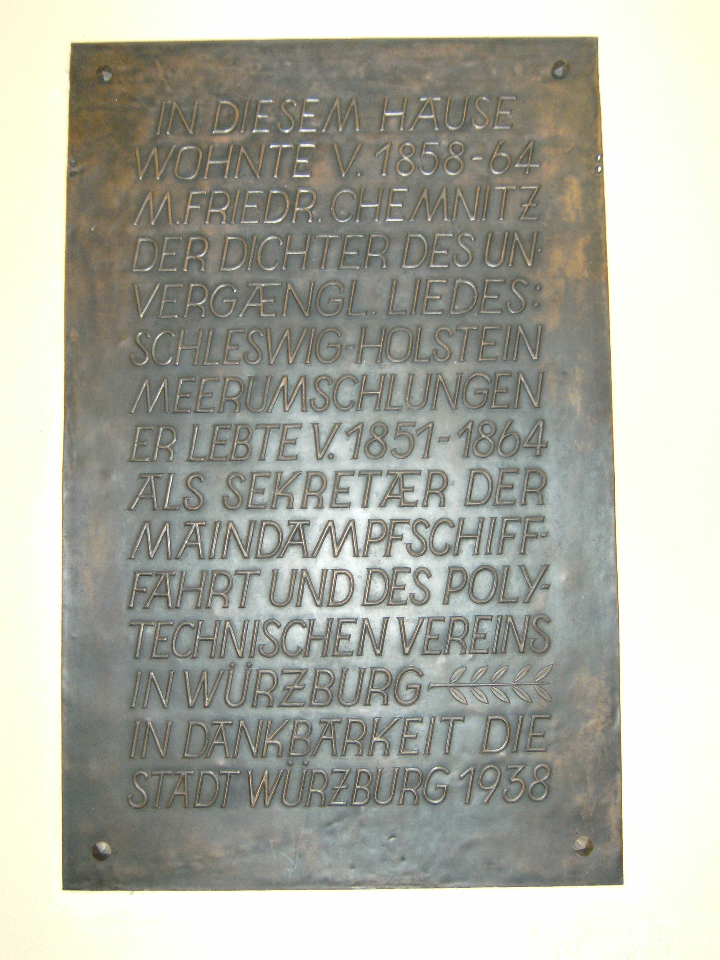 Würzburg, Germany, Maulhardgasse 2/Ecke Katharinengasse/Eingang Kaufhof: Plaque in memory for Matthäus Friedrich Chemnitz, who wrote the text for the hymn in honour of Schleswig-Holstein.